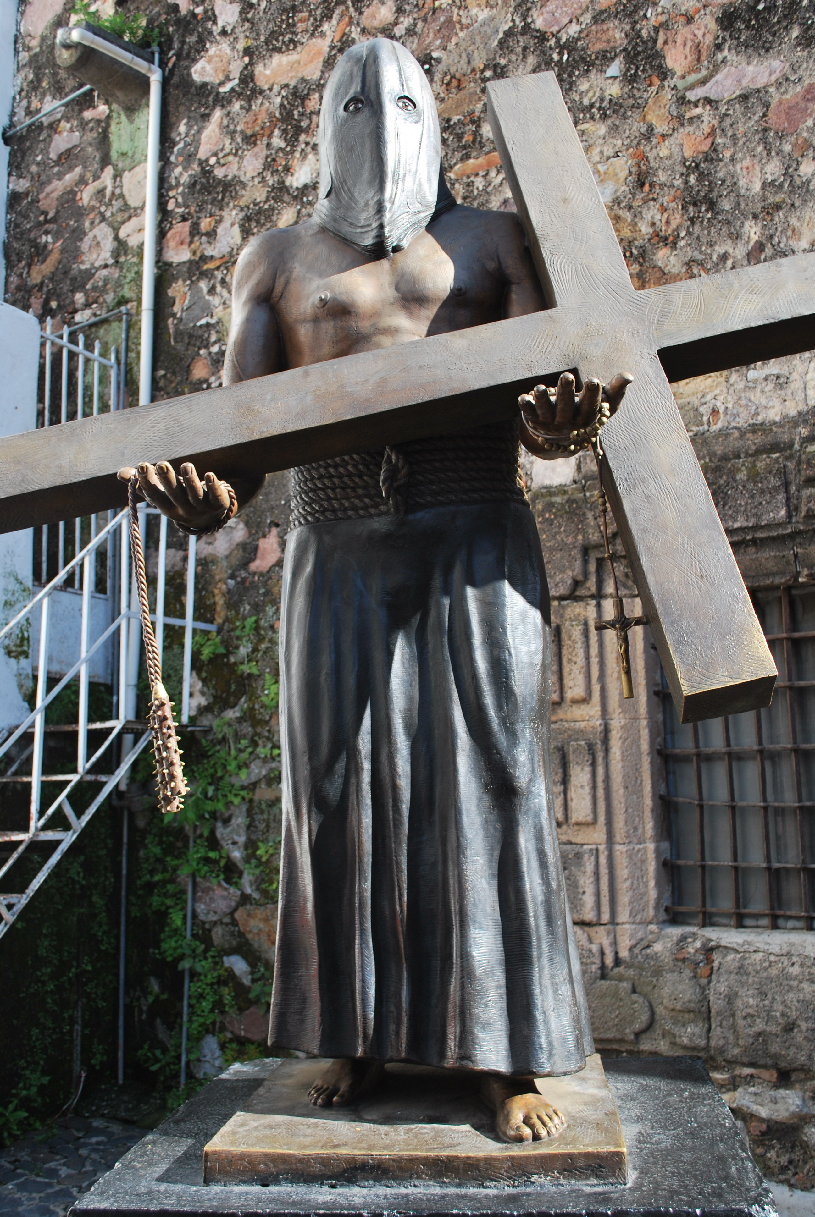 One of the sculptures by Carlos Millán Gómez behind the Church of the ex monastery of San Bernadino in Taxco de Alarcón, Guerrero, Mexico